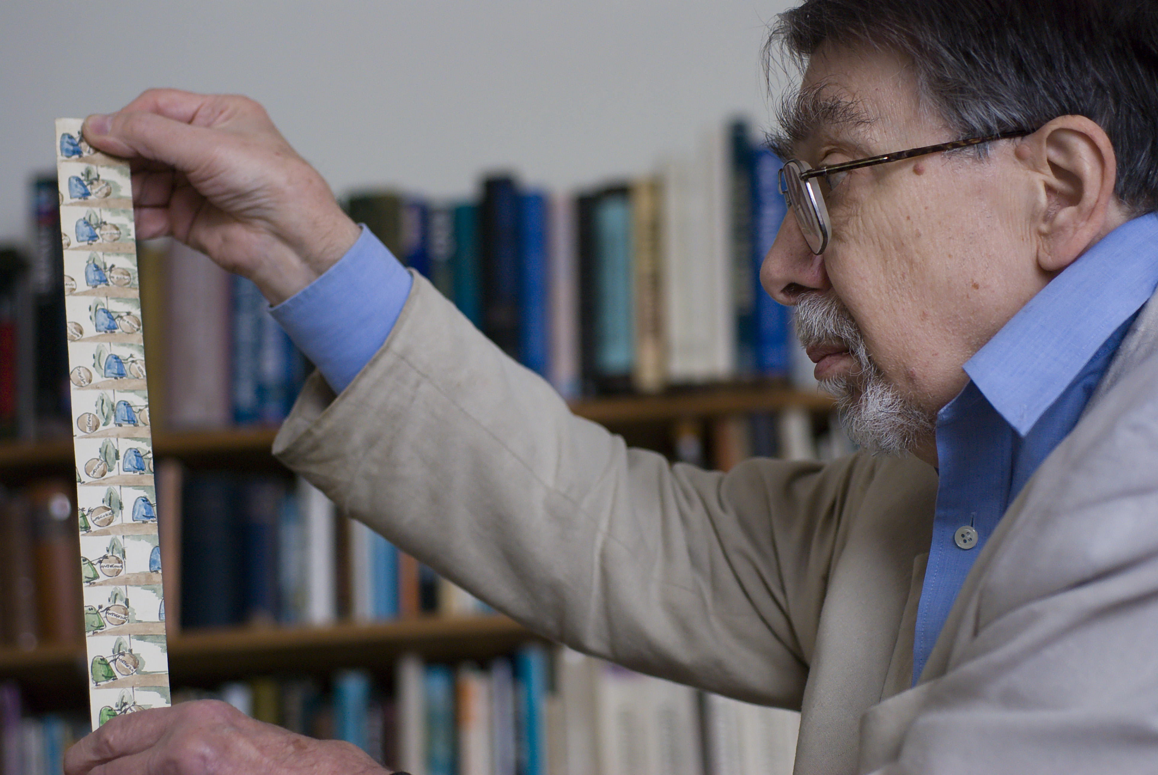 Some promotional photos for Adrin's documentary Perpetual Motion , distributed by Galloping Films . I've also written a blog post about these.